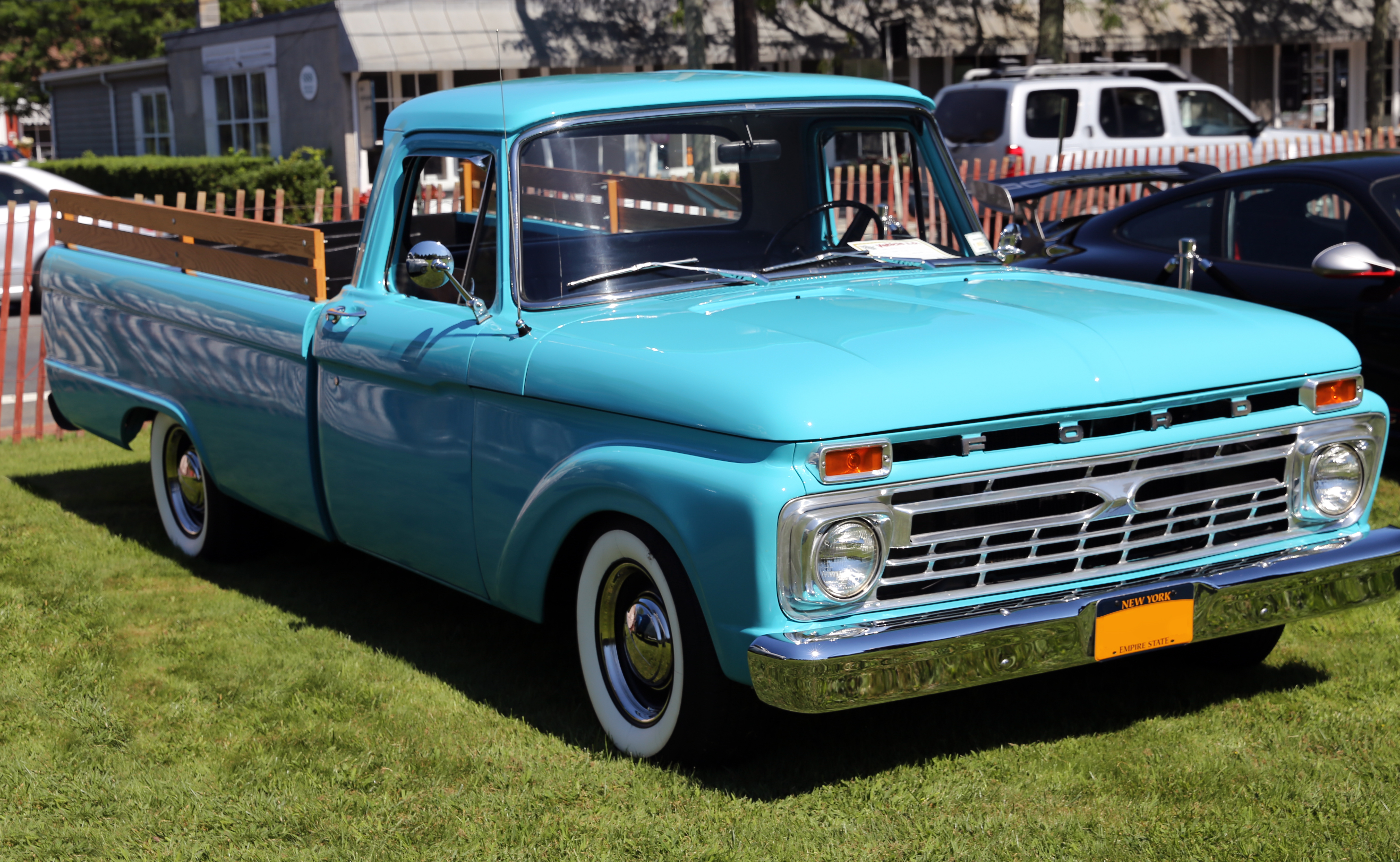 1966 Ford F-100 pickup truck at a show in Water Mill, NY. A two-wheel drive version with the 300ci, 150hp inline-six, assembled in Norfolk, VA.